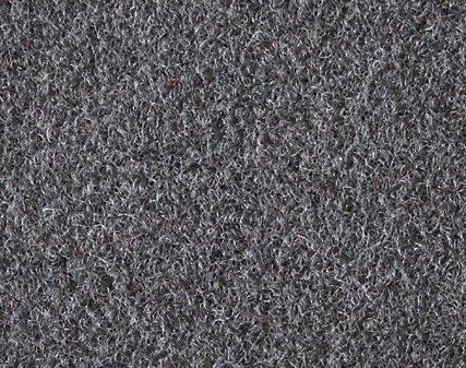 Needle felt carpet